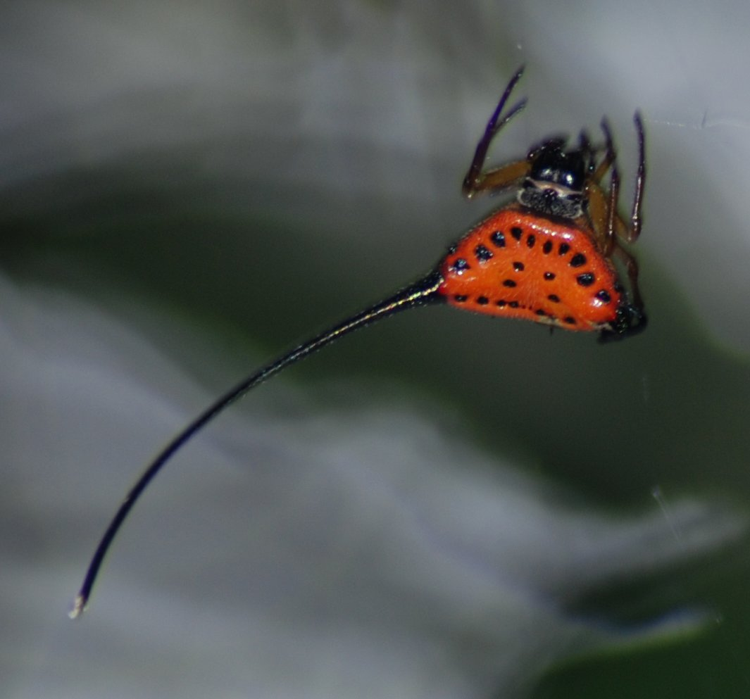 Horned spider (Gasteracantha arcuata) in Khao Yai National Park, Thailand.